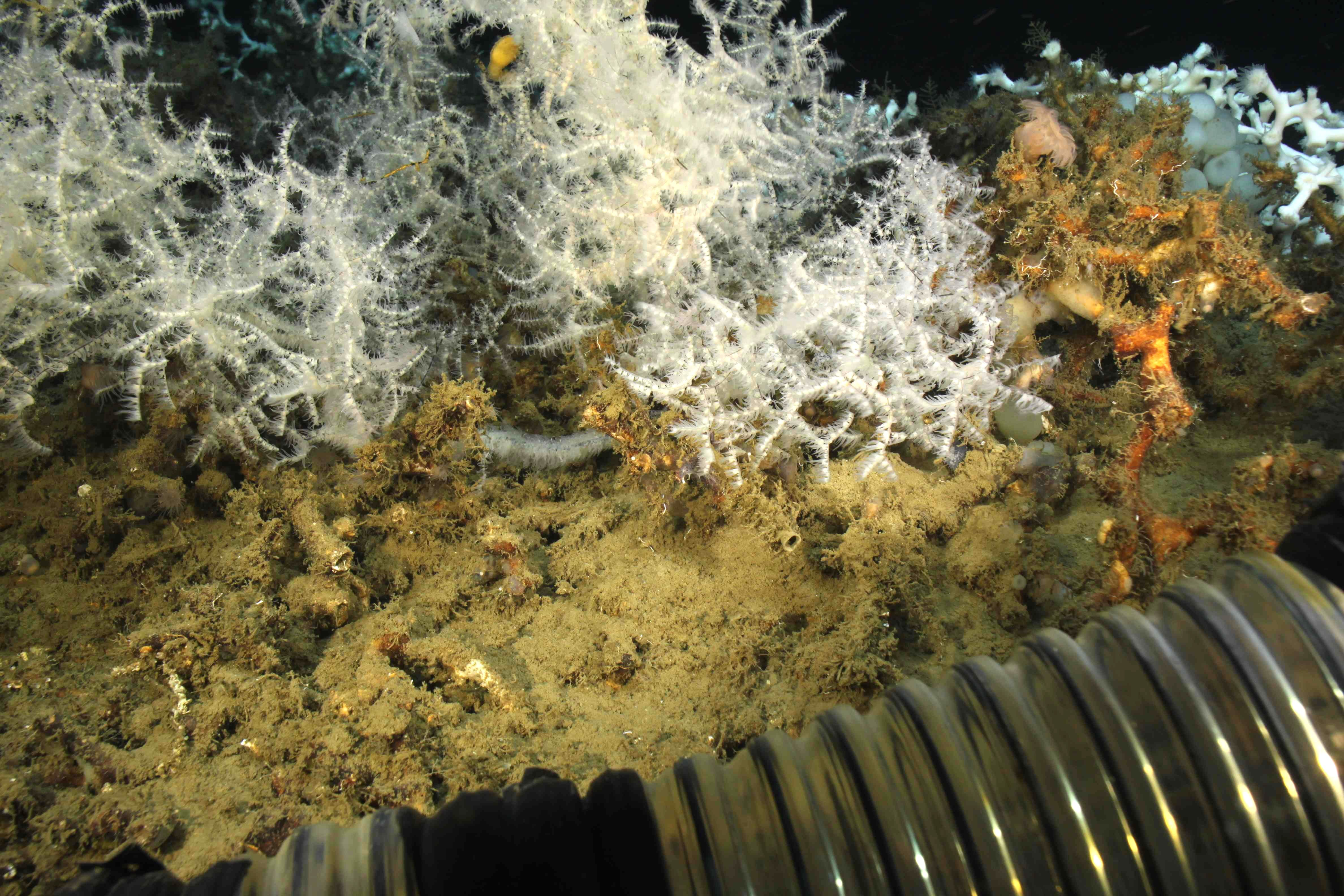 Although known as black corals because of the jewelry made from the black skeleton of the corals, in the Gulf of Mexico these Antipatharians in the genus Leiopathes come in colors ranging from white, through peach to orange and red. Gulf of Mexico.